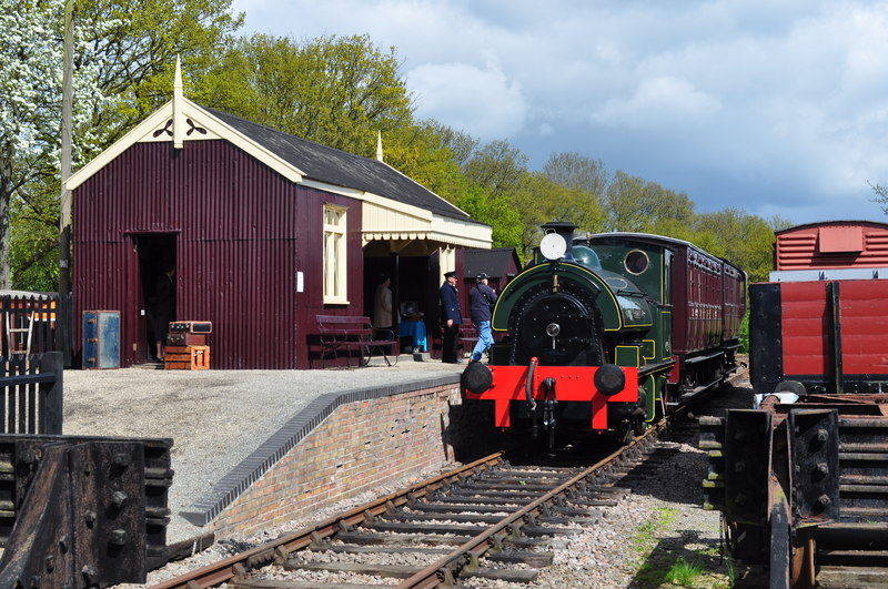 Brockford Station at the MSLR Museum, near to Wetheringsett, Suffolk, Great Britain. A view from the crossing gates of Brockford station, a recreation of a typical MSLR station. Built using conponents from stations on the line. It used the old cattle dock at the station. Falmouth Docks number 3 hauls MSLR liveried GER coaches up and down the line.